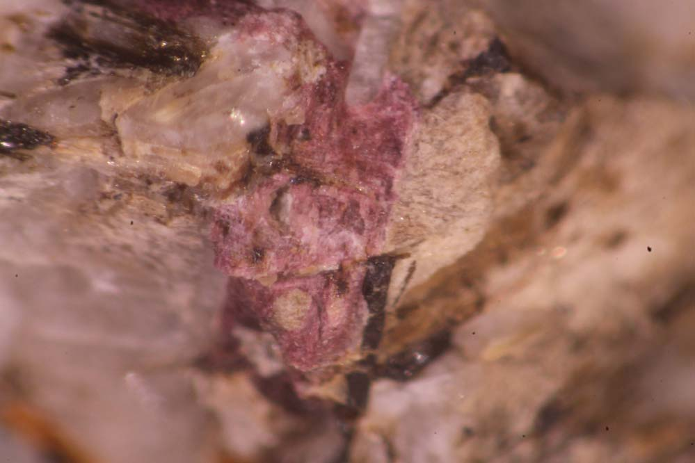 Pink crystals and aggregates of the rare new mineral manganoeudialyte (IMA 2009-039) from the type locality (Pedra Balao, Pocos de Caldas, Minas Gerais, Brazil) and one of the only five known localities worldwide.